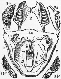 EB1911 Crustacea Fig. 10.—Gastric Teeth of Crab and Lobster